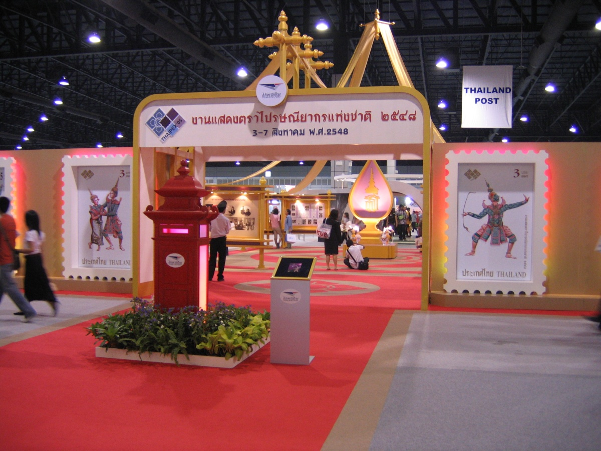 Thailand Philatelic Exhibition (THAIPEX '05) held at Impact, Muang Thong Thani, Thailand, during 3-7 August 2005.